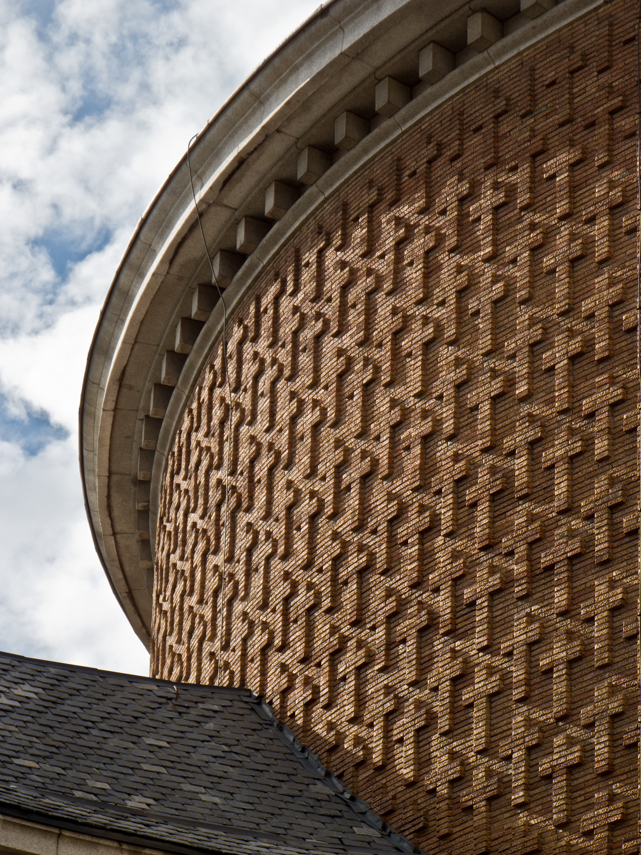 Moncloa-Aravaca District Council, Madrid, Spain.